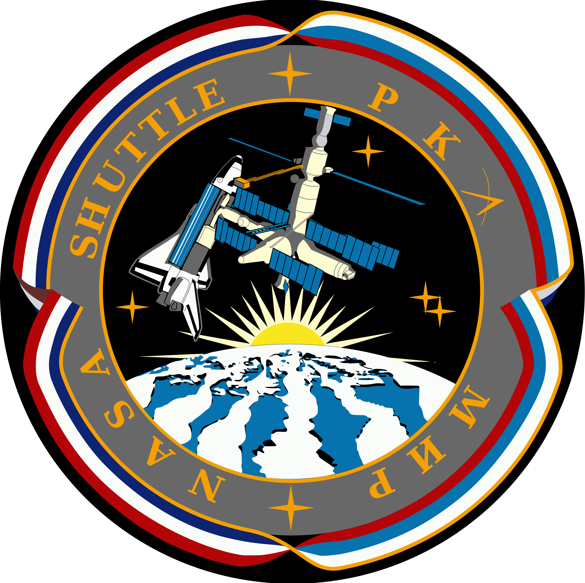 The official NASA patch for the Shuttle-Mir Program, showing a docked to the Russian ', flying above a stylised Earth. The patch is bordered by the colours of the flags of Russia and the USA.